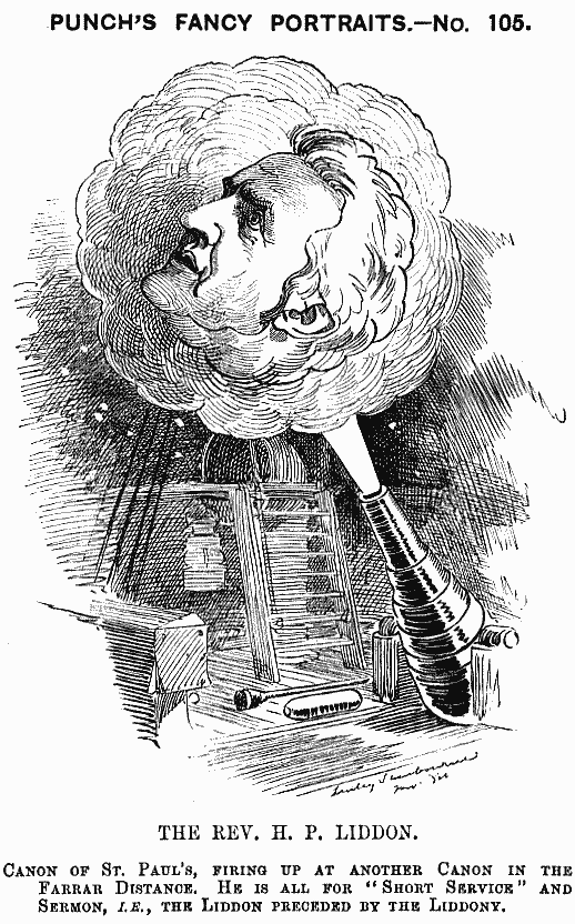 Cartoon depicting Henry Parry Liddon. Punch's Fancy Portraits - No. 105.